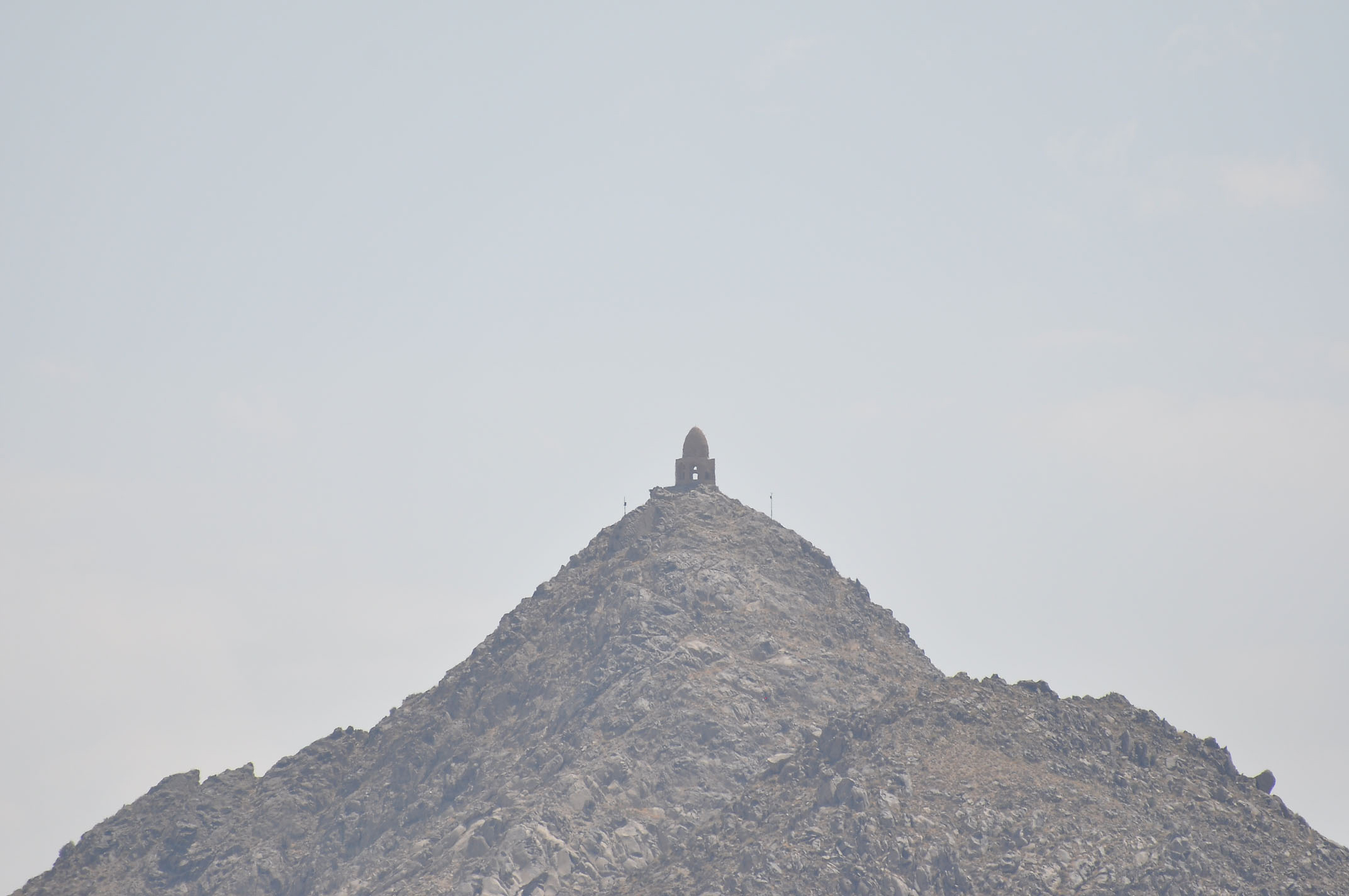 Falcon's Dome Panorama (Natanz)